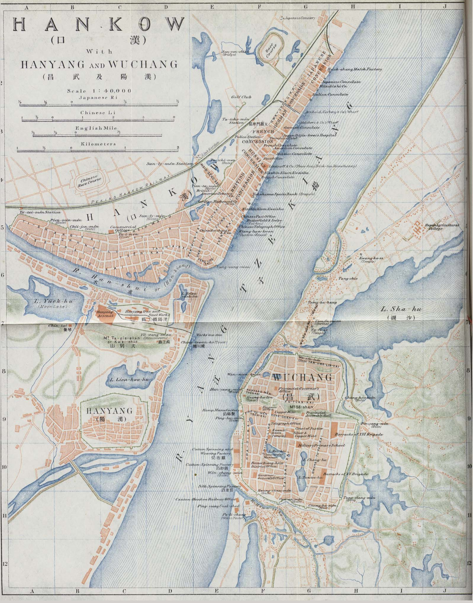 Map of Hankow (Hankou, in Pinyin) with Hanyang and Wuchang, as of 1915. These three cities have later merged to form modern Wuhan. The map shows the borders of the French, British, Russian, German, and Japanese concessions in Hankou.